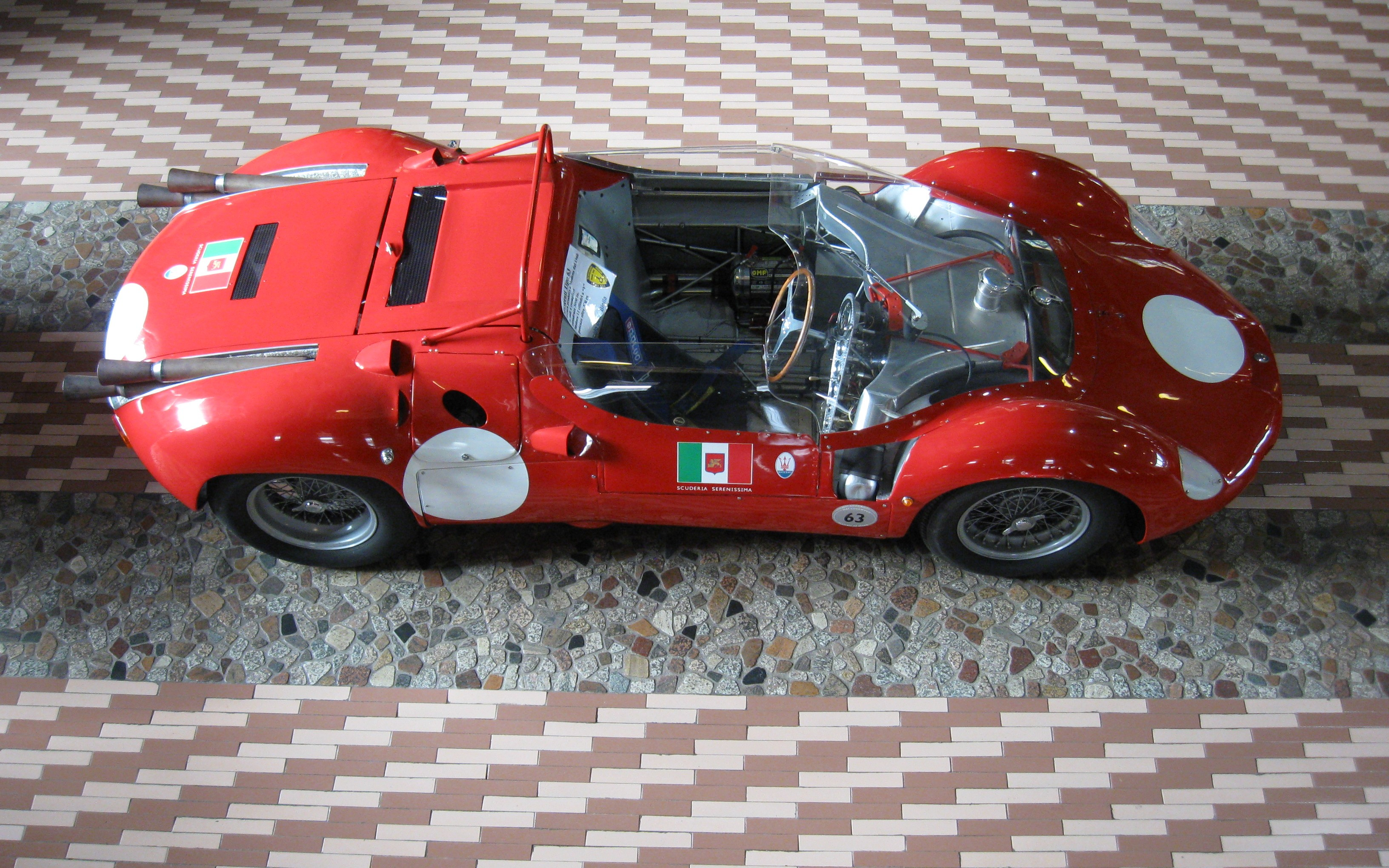 Maserati Tipo 63 (12 cylinder engine) campaigned by Scuderia Serenissima and driven by Nino Vaccarella & Ludovico Scarfiotti